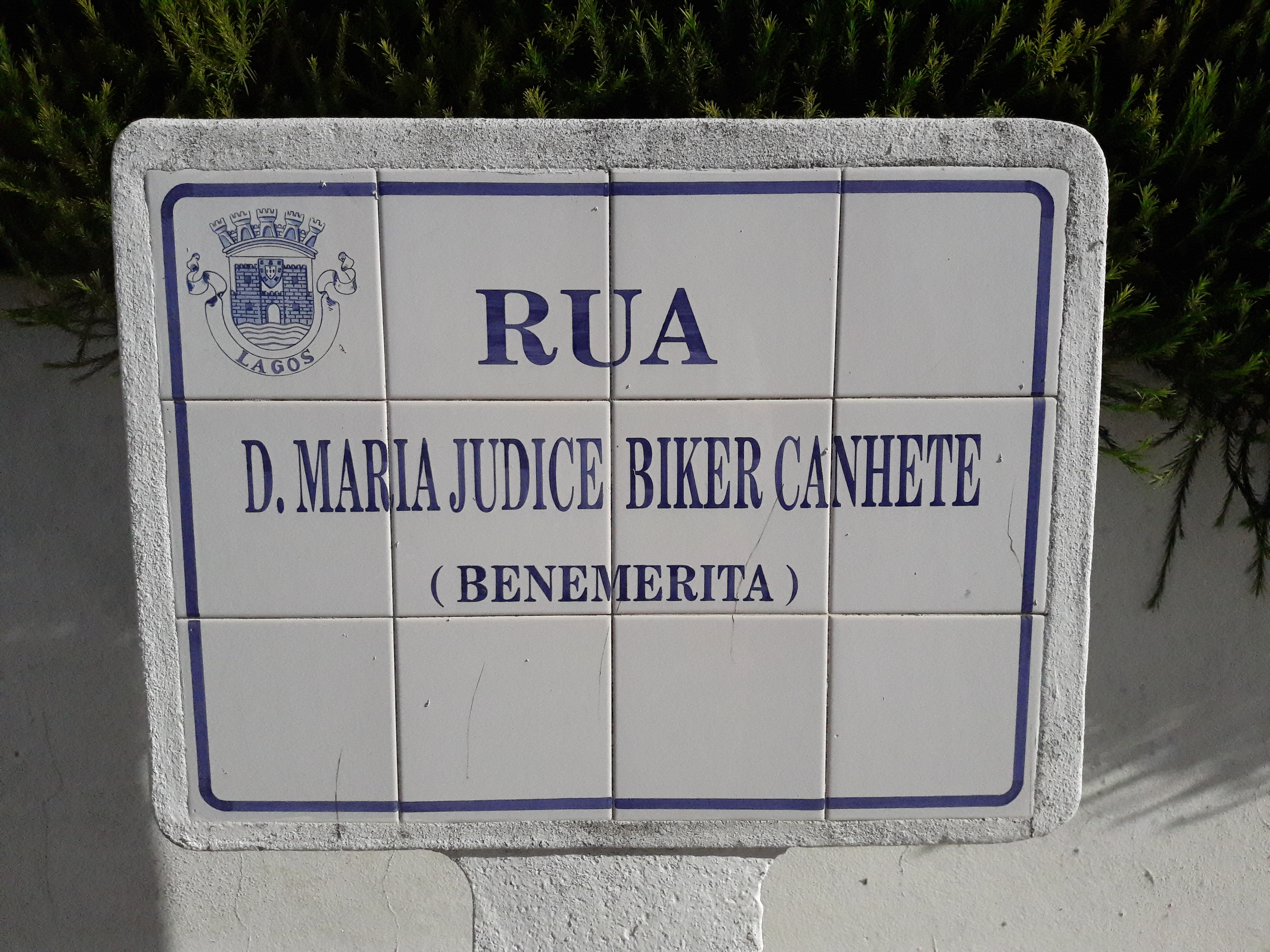 Street sign of Rua Maria Judice Biker Canhete, in the city of Lagos, in southern Portugal.